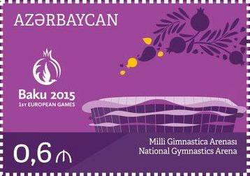 Coming soon - First European Games. Baku 2015.